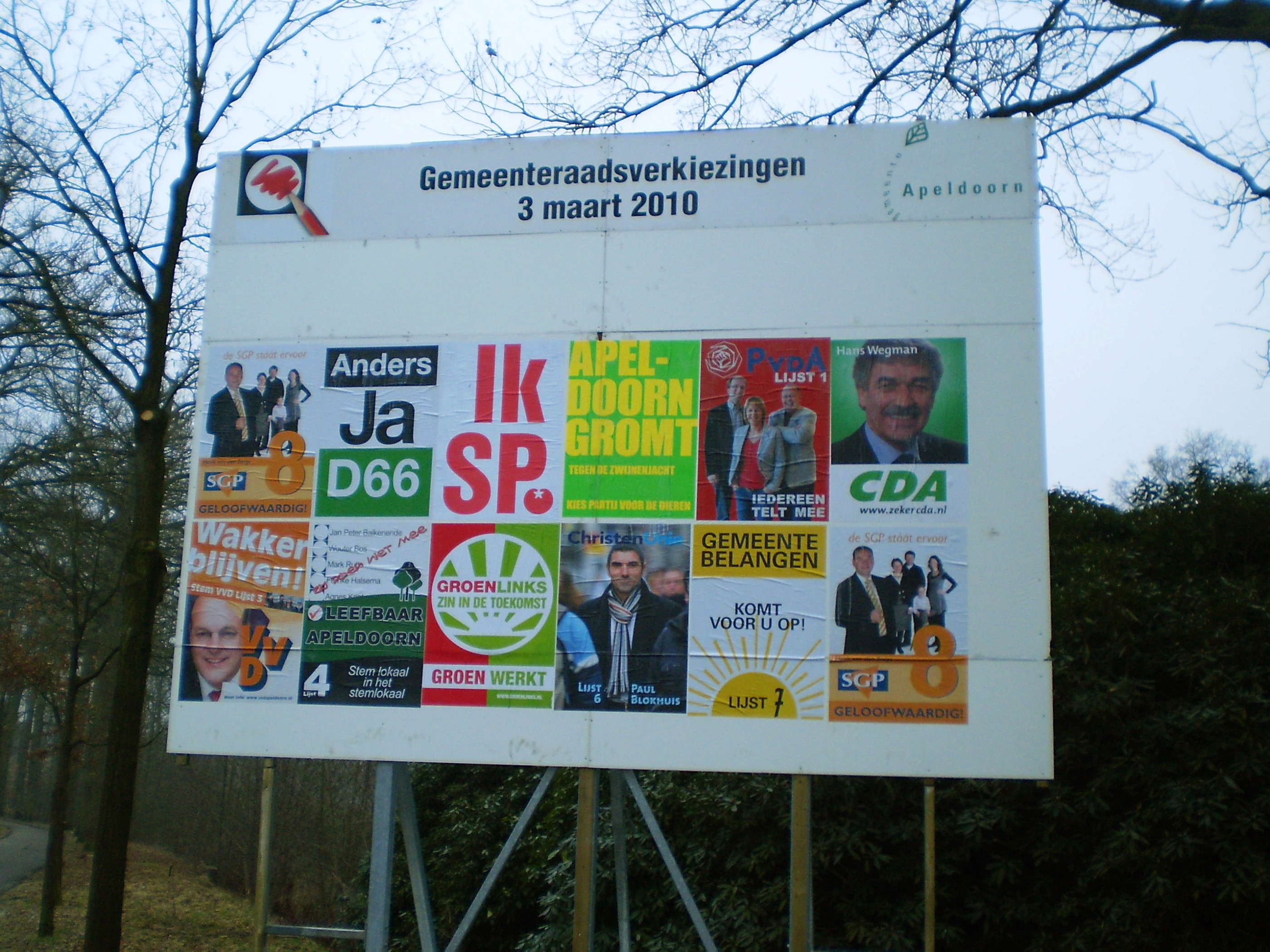 Election posters for municipal elections, Apeldoorn 2010